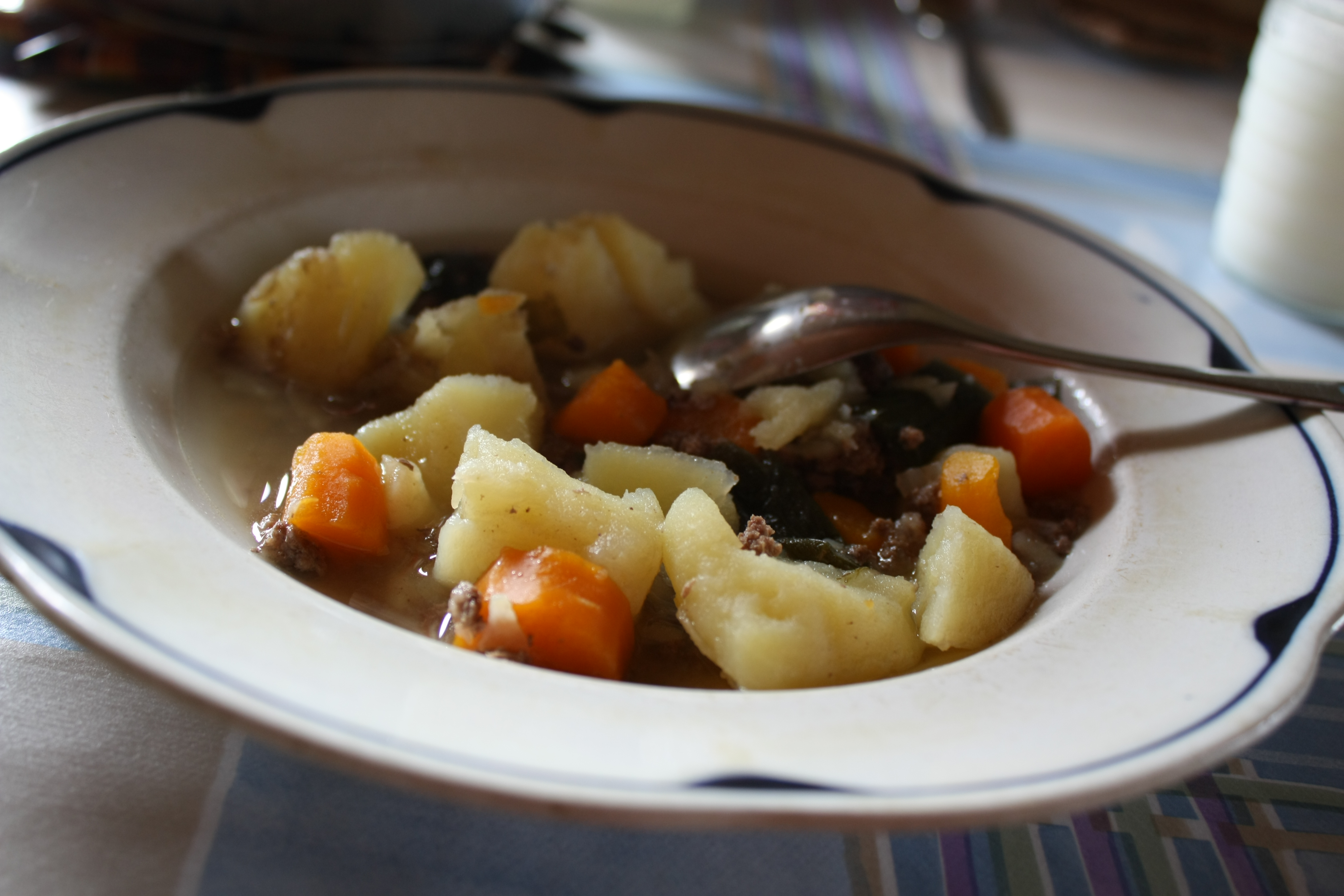 A plateful of meat soup ready to be eaten.